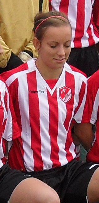 Depicted person: Lucy Staniforth – Footballer